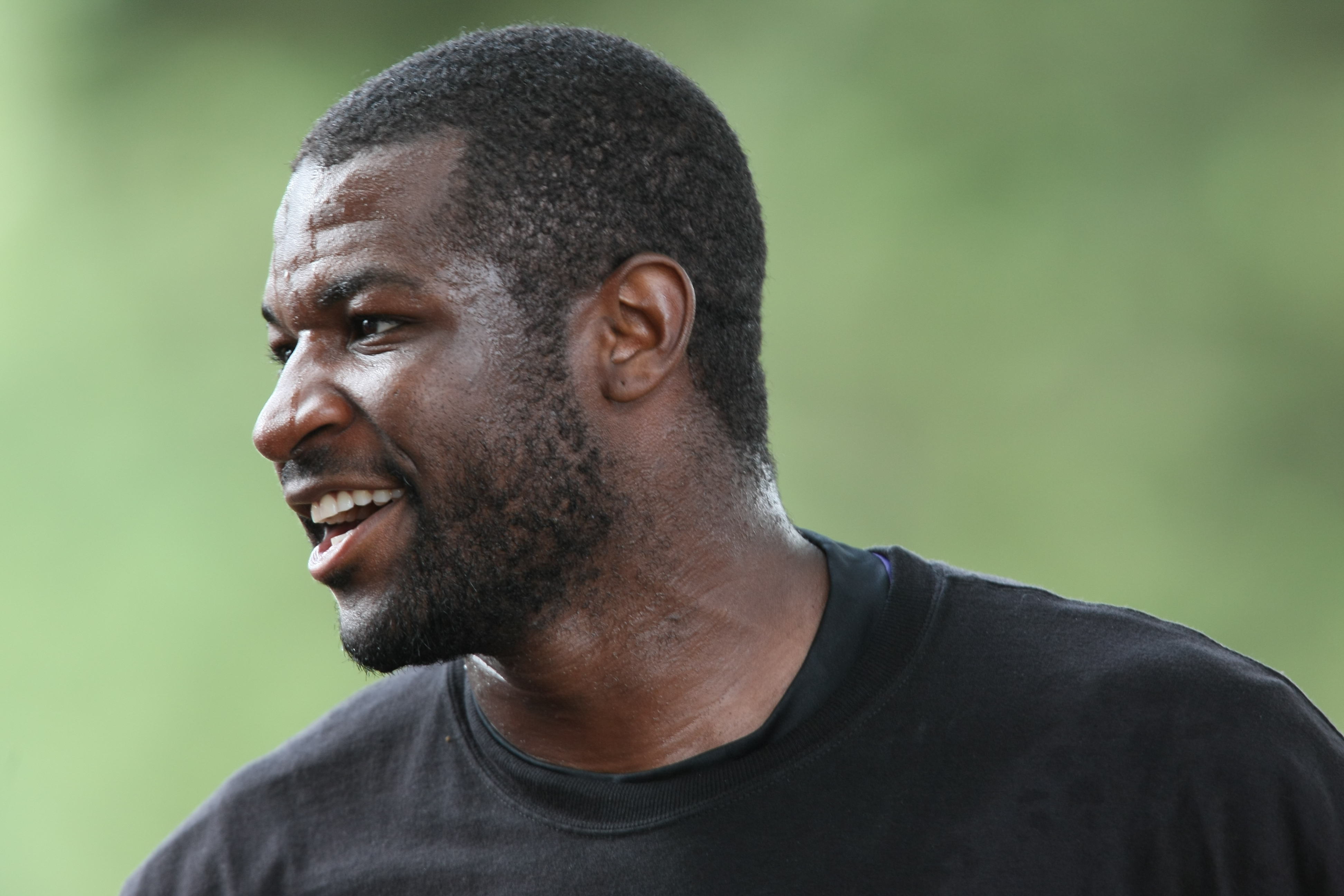 Mark Clayton at Baltimore Ravens Training Camp on August 22, 2009